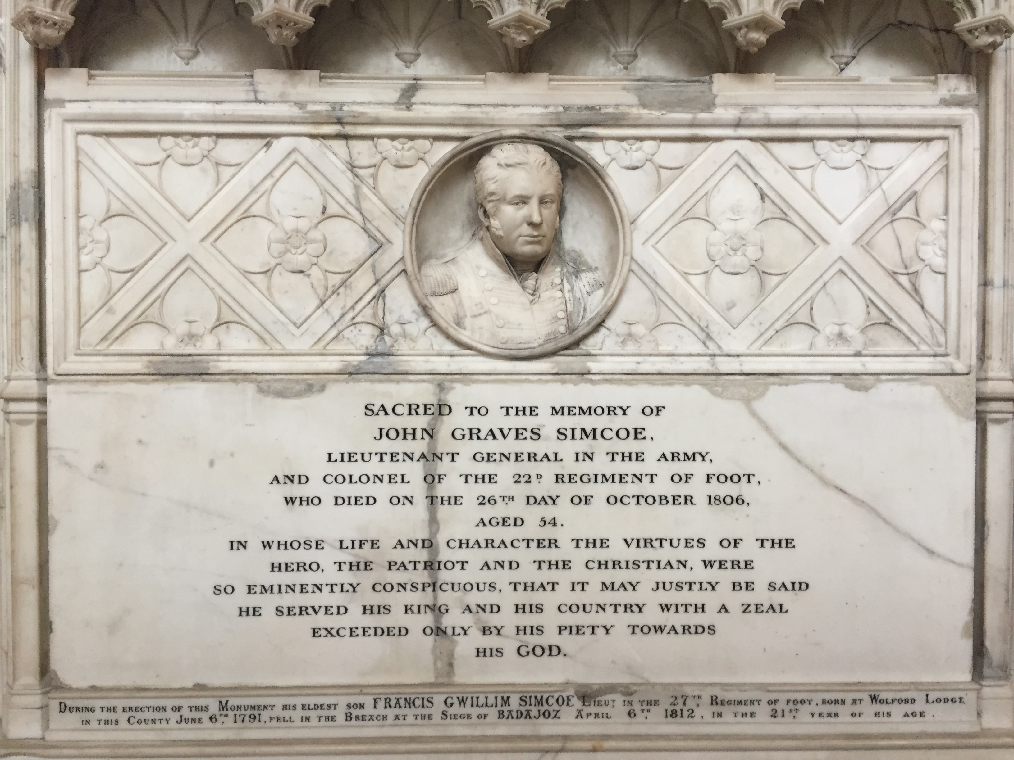 Memorial to Ontario's first Lt.-Gov.